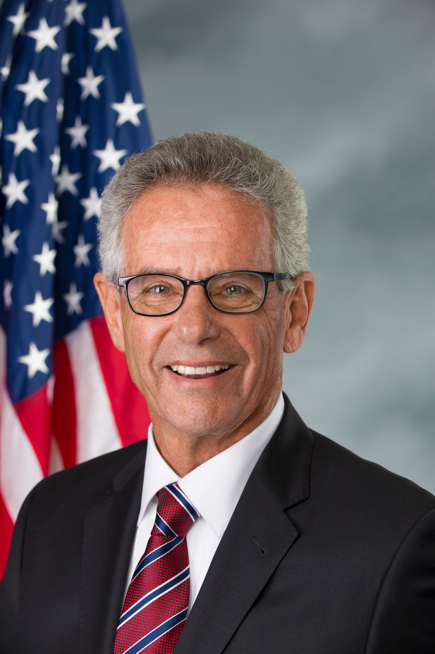 United States Congressman from California Alan Lowenthal.